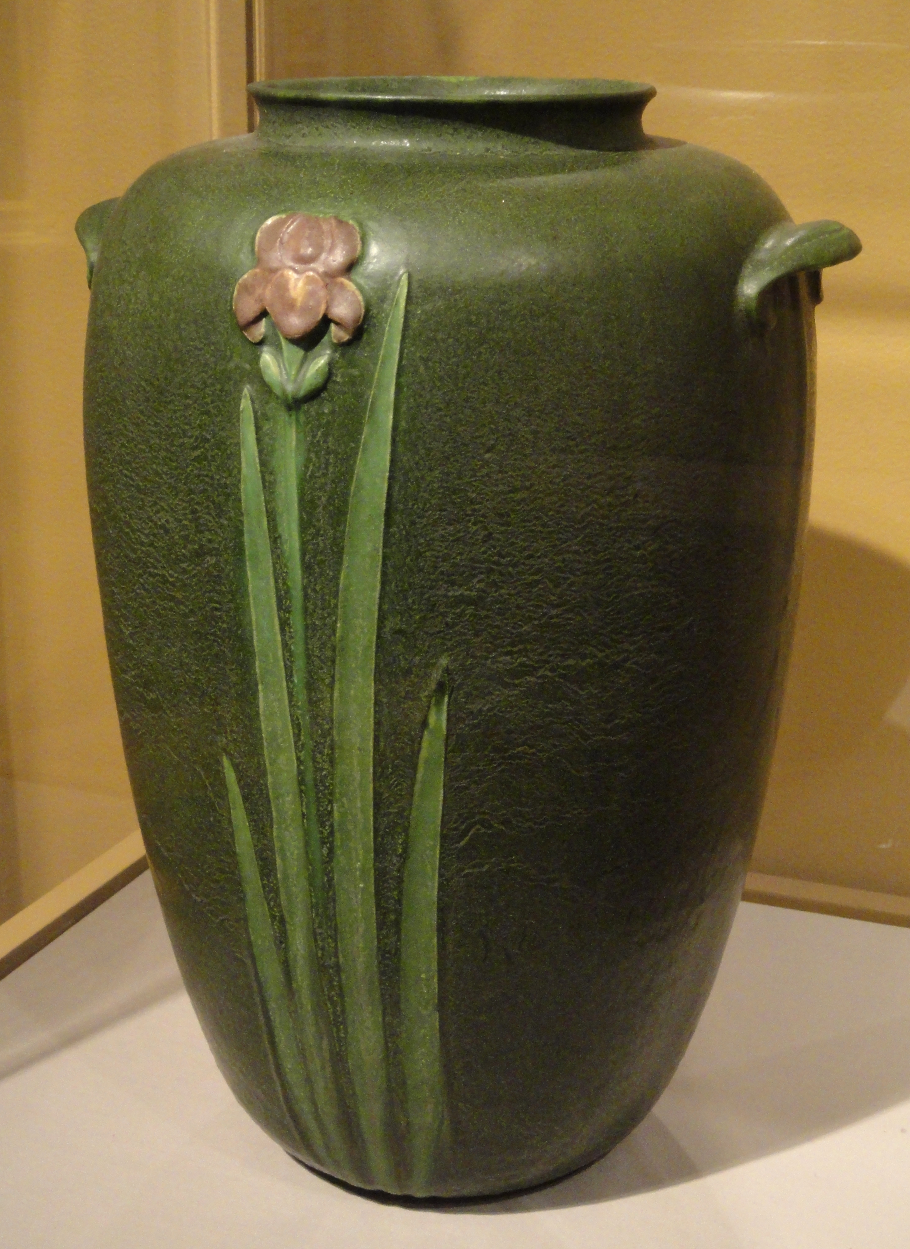 Vase, modeled by Annie V. Lingley, Grueby Faience Company, Boston, c. 1901, glazed earthenware - Hood Museum of Art, Dartmouth College, Hanover, New Hampshire, USA. This artwork is in the public domain because the artist died more than 70 years ago.